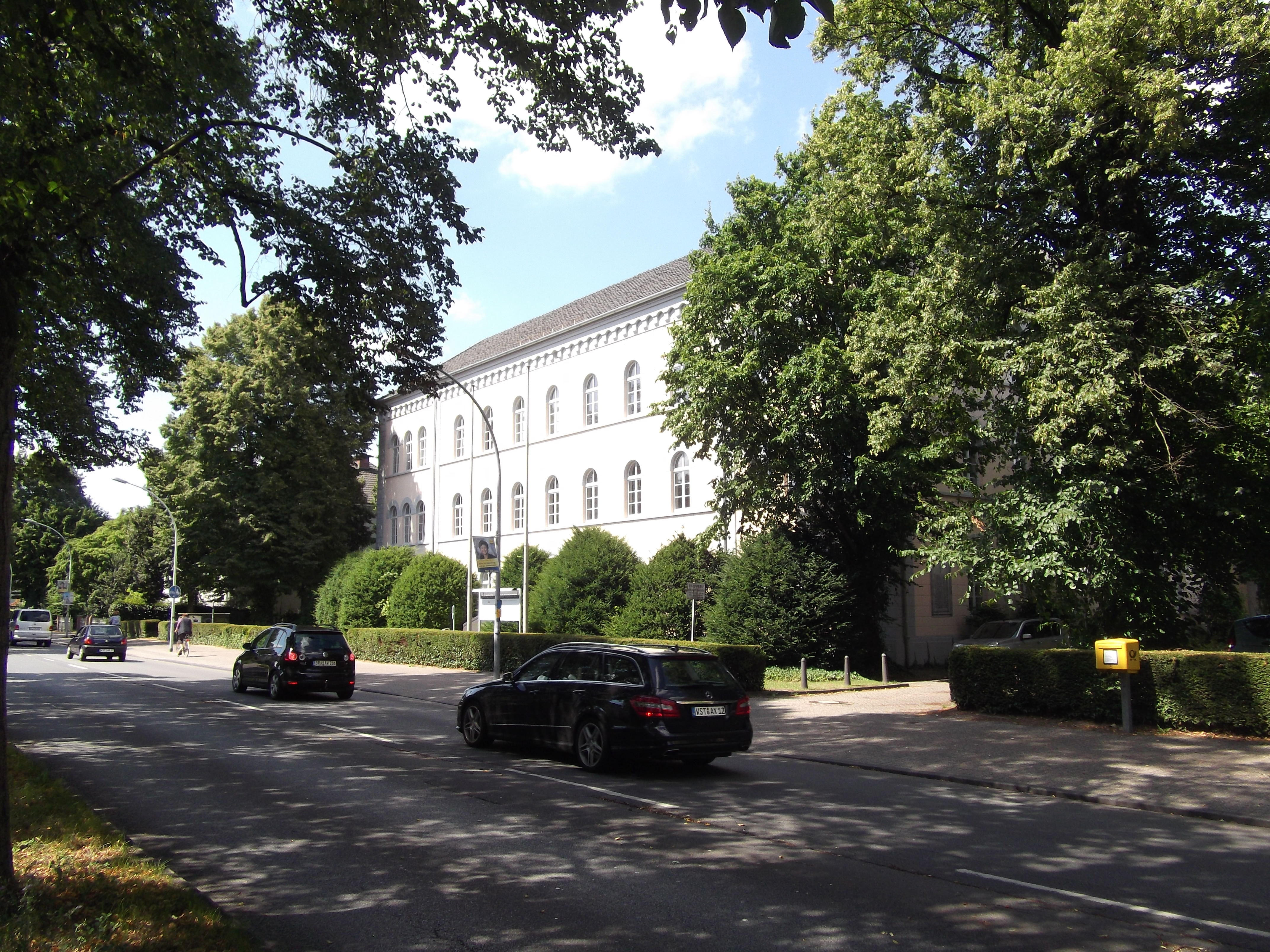 Barrack of the Oldenburg artillery. Constructed from 1845 to 1847. Architect unknown. Used by the Oldenburg artillery, since 1867 Prussian, until 1919. Today (2013) used by the Jade Hochschule.